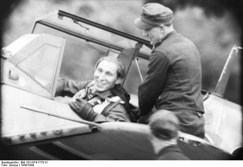 Information added by Wikimedia users.Pilot in photo is most probably Klaus Mietusch, photo taken between 26 March 1944 and 18 November 1944.